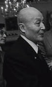 Yoshio Sakurauchi in White House in 1982